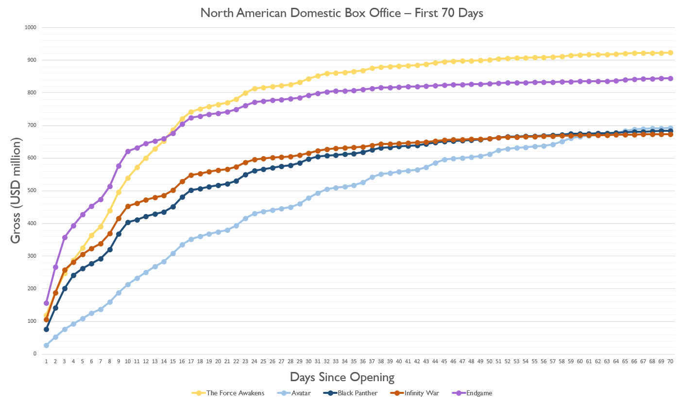 A chart depicting the cumulative domestic box office gross of Avatar (2009), Avengers: Endgame (2019), Avengers: Infinity War (2018), Black Panther (2018), and Star Wars: The Force Awakens (2015) over their first 70 days of release respectively, in millions of United States dollars. The chart illustrates the varying growth trajectories of the five films, which are the five highest-grossing in North America, unadjusted for inflation. Star Wars: The Force Awakens, the highest-grossing film in North America, grossed US$923,001,884 after 70 days. It would end its theatrical run after 165 days with a total gross of US$936,662,225 [1]. Avatar grossed US$692,904,794 after 70 days. It would end its theatrical run after 234 days with a total gross of US$749,766,139 [2]. Black Panther grossed US$683,628,489 after 70 days. It would end its theatrical run after 175 days with a total gross of US$700,059,566 [3]. Avengers: Infinity War grossed US$673,929,474 after 70 days. It would end its theatrical run after 140 days with a total gross of US$678,815,482 [4]. All data sourced from Box Office Mojo. Legend Avatar (2009) Avengers: Endgame (2019) Avengers: Infinity War (2018) Black Panther (2018) Star Wars: The Force Awakens (2015)